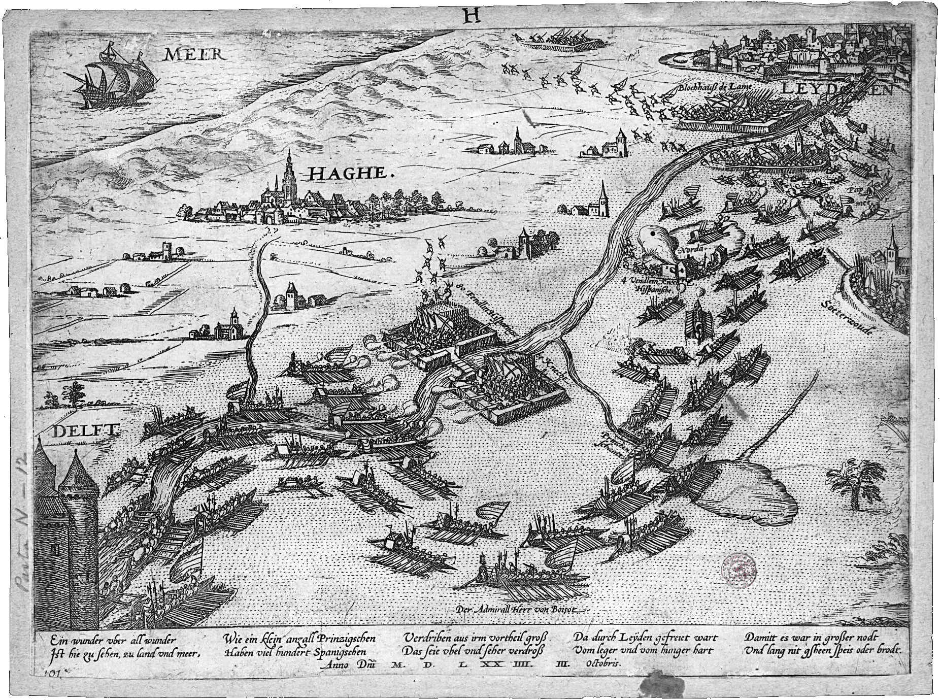 Bird's eye view of The Hague, Leiden, Delft. The illustration shows the siege of Leiden, on 3 October 1574. Date on image: MDLXXIIII, III Octobris. Size 20x29,3 cm.